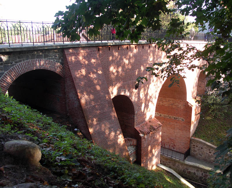 Gothic bridge in Reszel/Poland